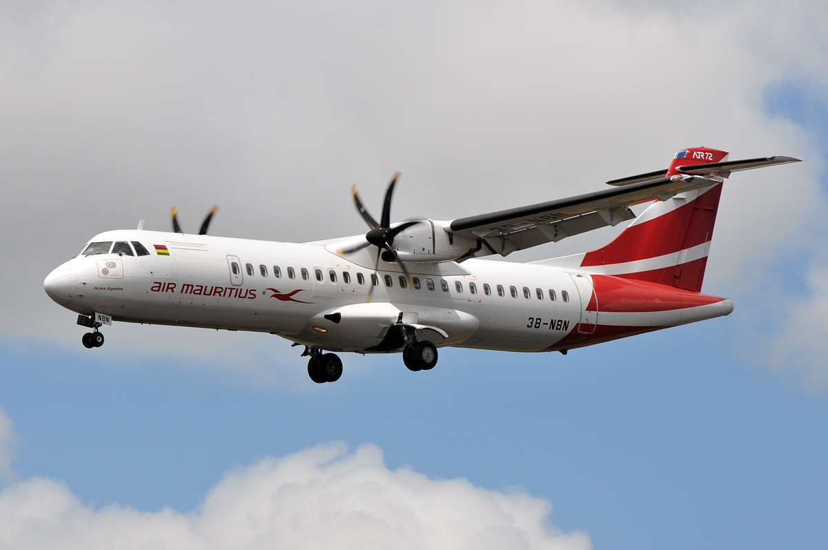 Air Mauritius ATR-72-500 on finals at Mauritius Airport